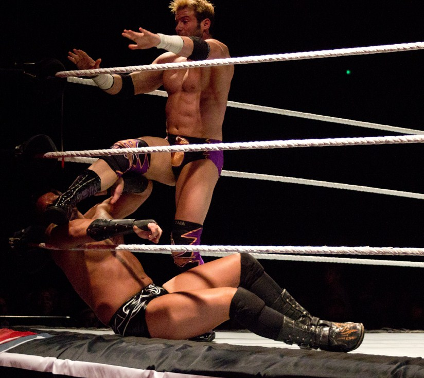 Zack Ryder performs a Broski Boot facewash to Conor O'Brian during a WWE house show on February 2, 2013 in Montgomery, Alabama.